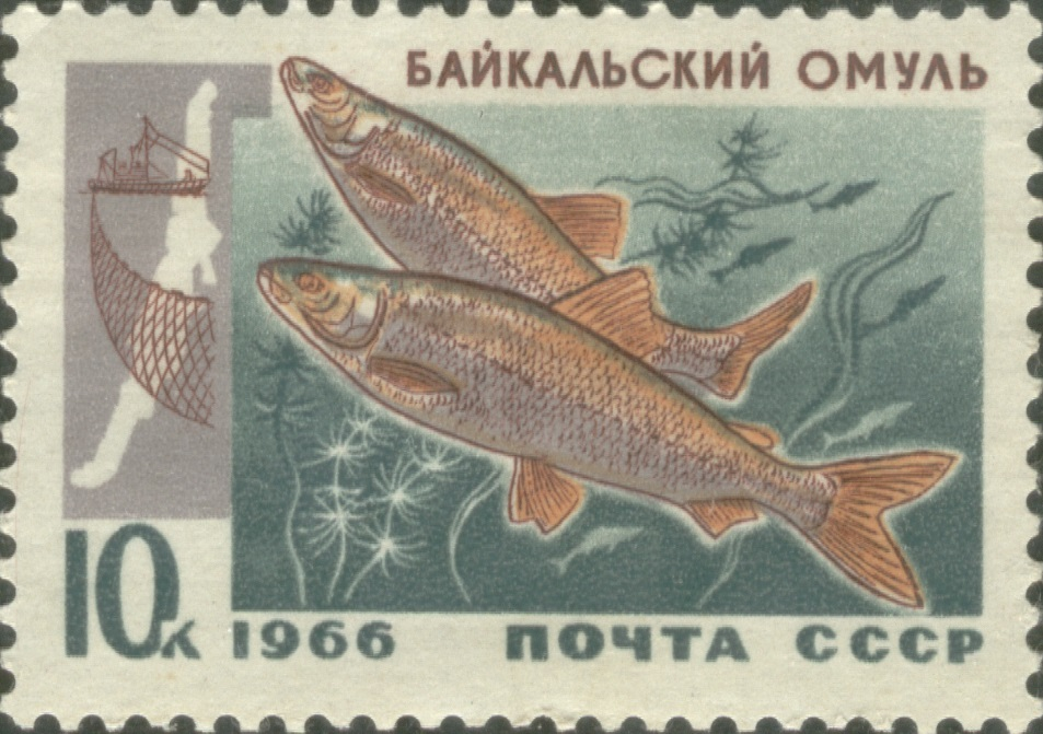 USSR stamp of 1966.09.25; 10 kopecks. Fish resources of Lake Baikal. Two omul (Baikal cisco) (Coregonus migratorius Georgi, 1775) and part of design of 6k stamp.